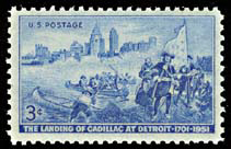 US stamp honoring the Cadillac exploration